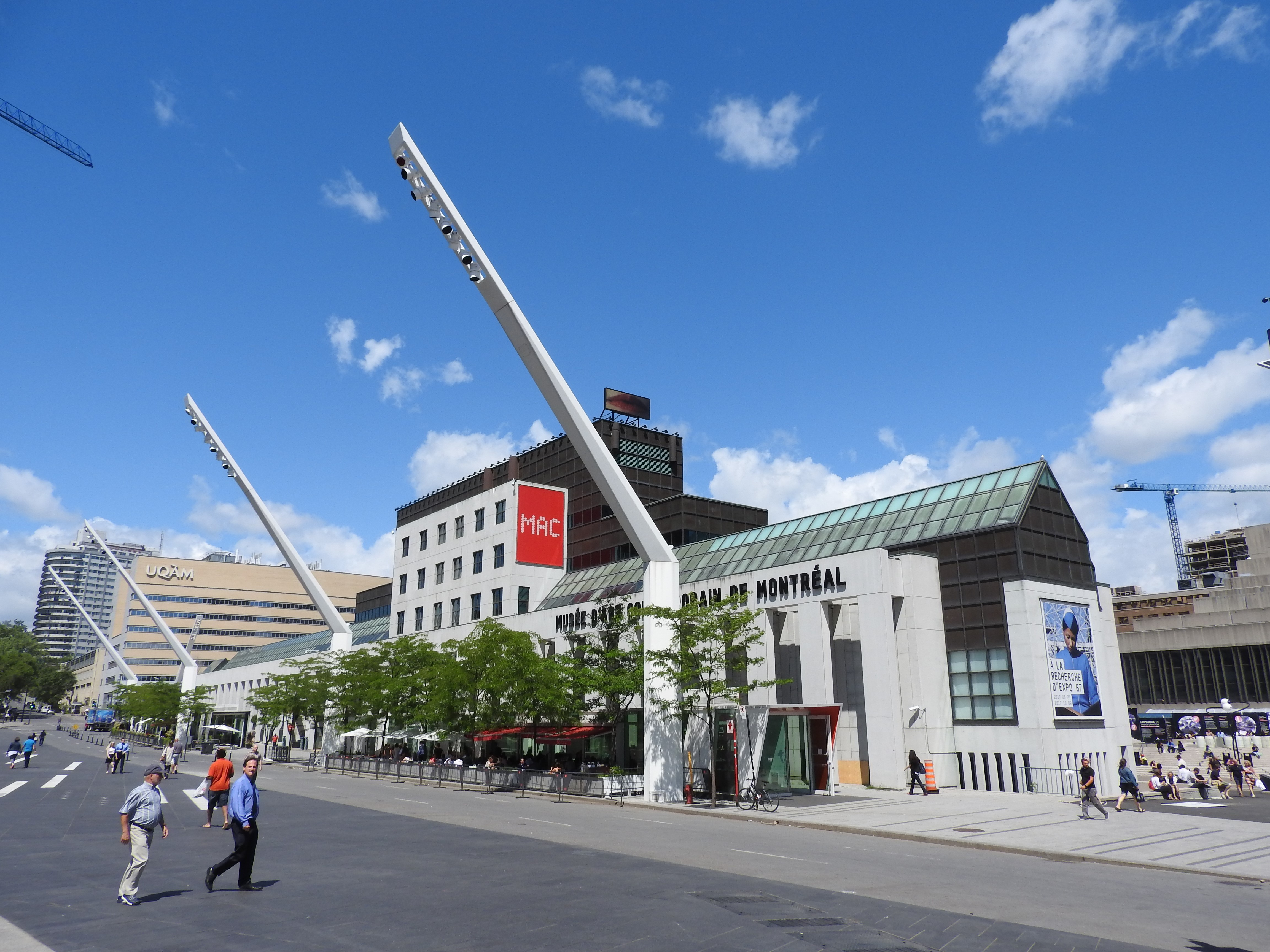 Looking north across the arts plaza on a sunny midday